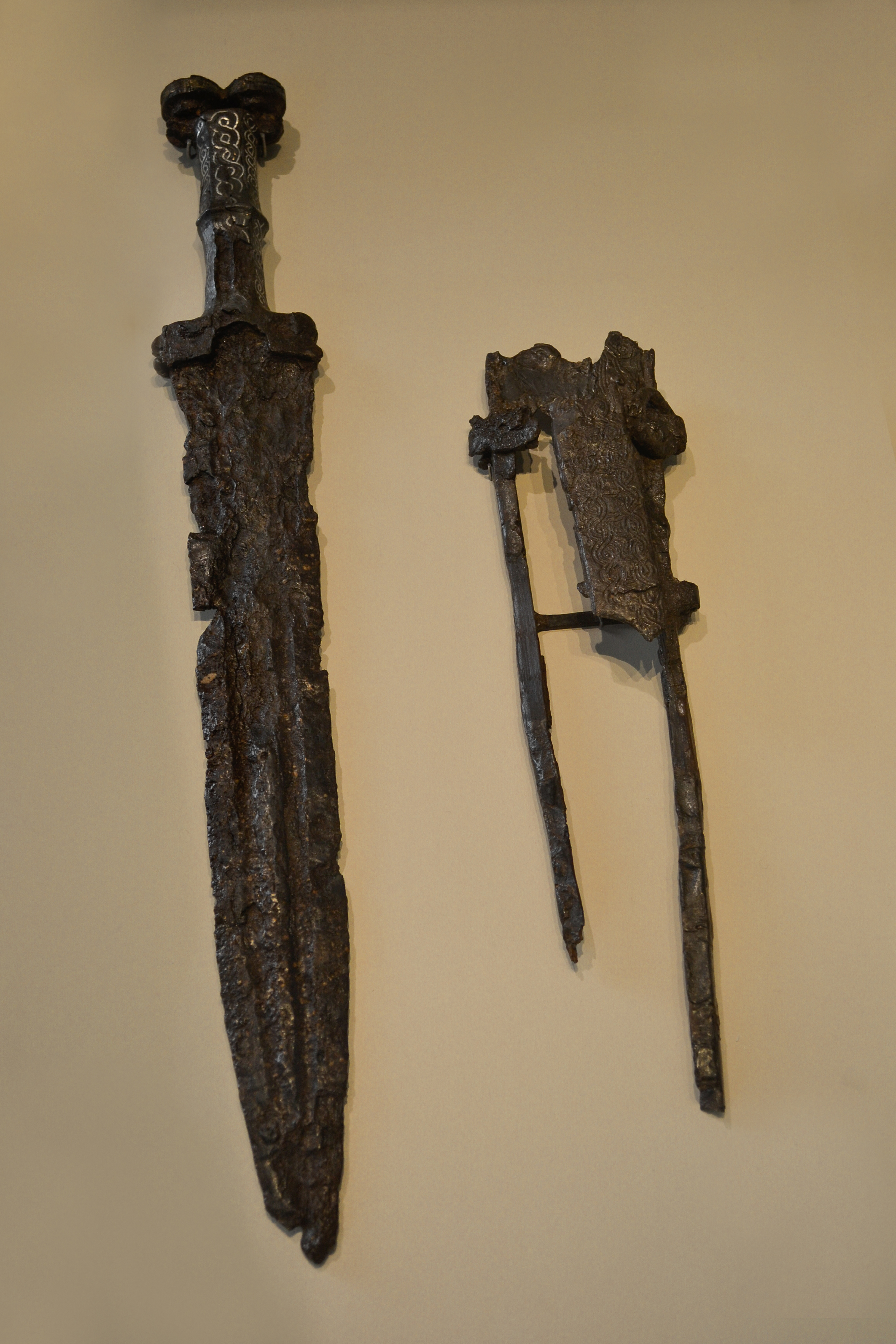 Alcácer do Sal-type sword and scabbard. Vettonian culture. 4th-3rd centuries BC. Necropolis of La Osera, zone I, tumulus D, Grave I (Chamartín, Ávila). Sword of antennas of type Alcácer do Sal, characterised by a narrow pointed blade with grooves and a faceted knob with atrophied antennas and a recessed guard; the decoration of the handle is damascene based on curvilinear geometric motifs. Technique: Wrought iron. Provenance: Necropolis of La Osera (Chamartín, Ávila), zone I, tumulus D, grave I. Sword handle: Damascene. Dimensions: Length: 41 cm. Sword handle: Length: 12 cm; width: 3 cm; maximum thickness: 2 cm. Sword blade: Length: 30 cm; width: 5 cm; maximum thickness: 0.30 cm. Sword knob: Width: 5 cm. Inventory number 1986/81/I/T.D/I/1.. National Archaeological Museum of Spain. Fragments of sword scabbard of antennas: Formed by a frame of iron reeds, like corner pieces, which would have assembled an iron plate also as a central reinforcement. This plate, incomplete, conserves remains of damascene decoration in silver, based on geometric and braided motifs and would take a box where to keep the rest of the warrior team. Technique: Iron and silver. Provenance: Necropolis of La Osera (Chamartín, Ávila) zone I, tumulus D, grave I. Length: 26 cm; width: 6 cm; thickness: 1 cm. Ring: Diameter: 2.40 cm. Sheath plate: width: 2.50 cm. Inventory number 1986/81/I/T.D/I/2.